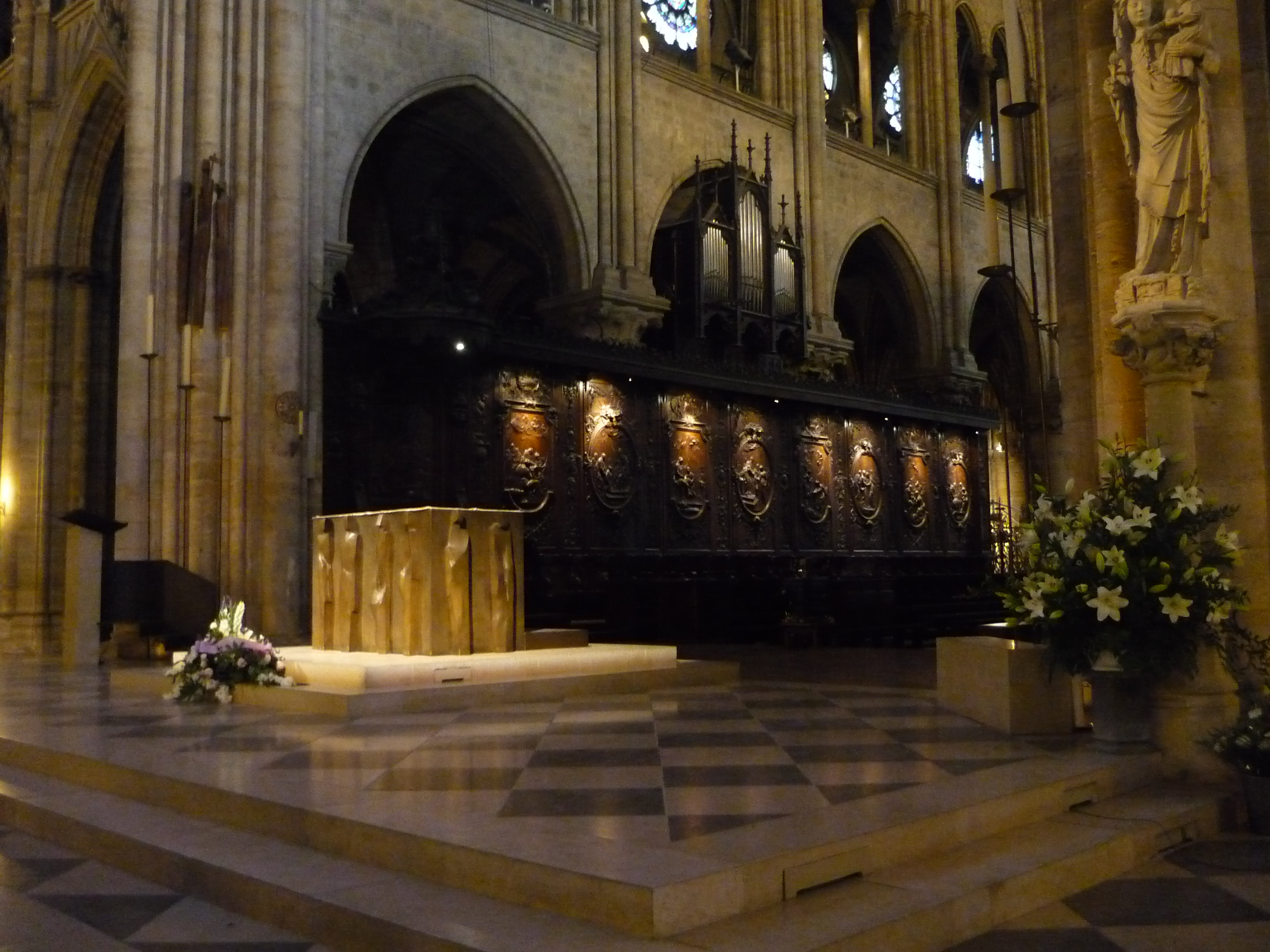 Choir stalls on the left hand side of the interior of Notre Dame, Paris